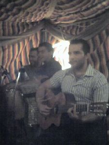 Haniata concert